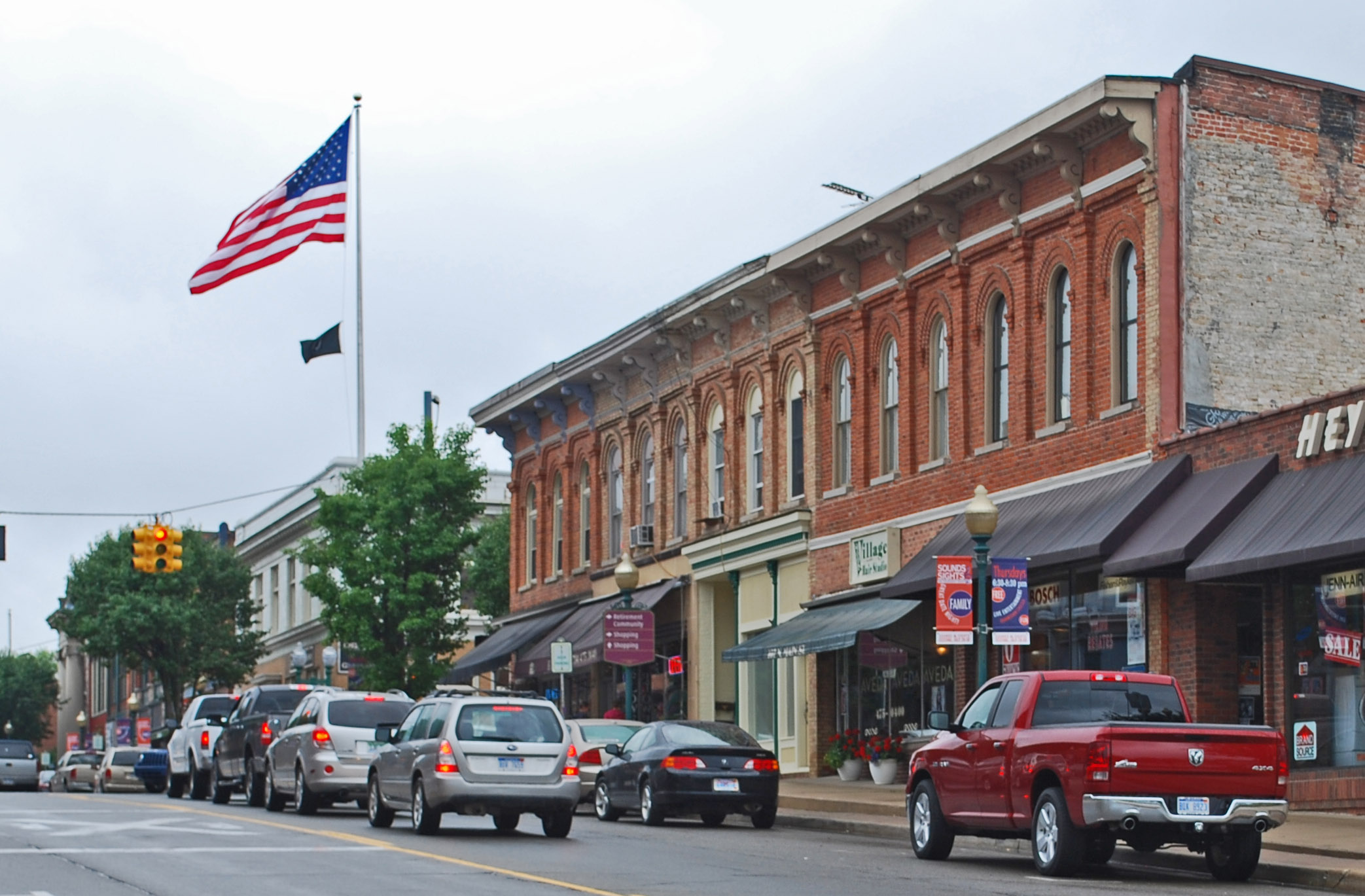 Main Street in Chelsea MI (Downtown HD)